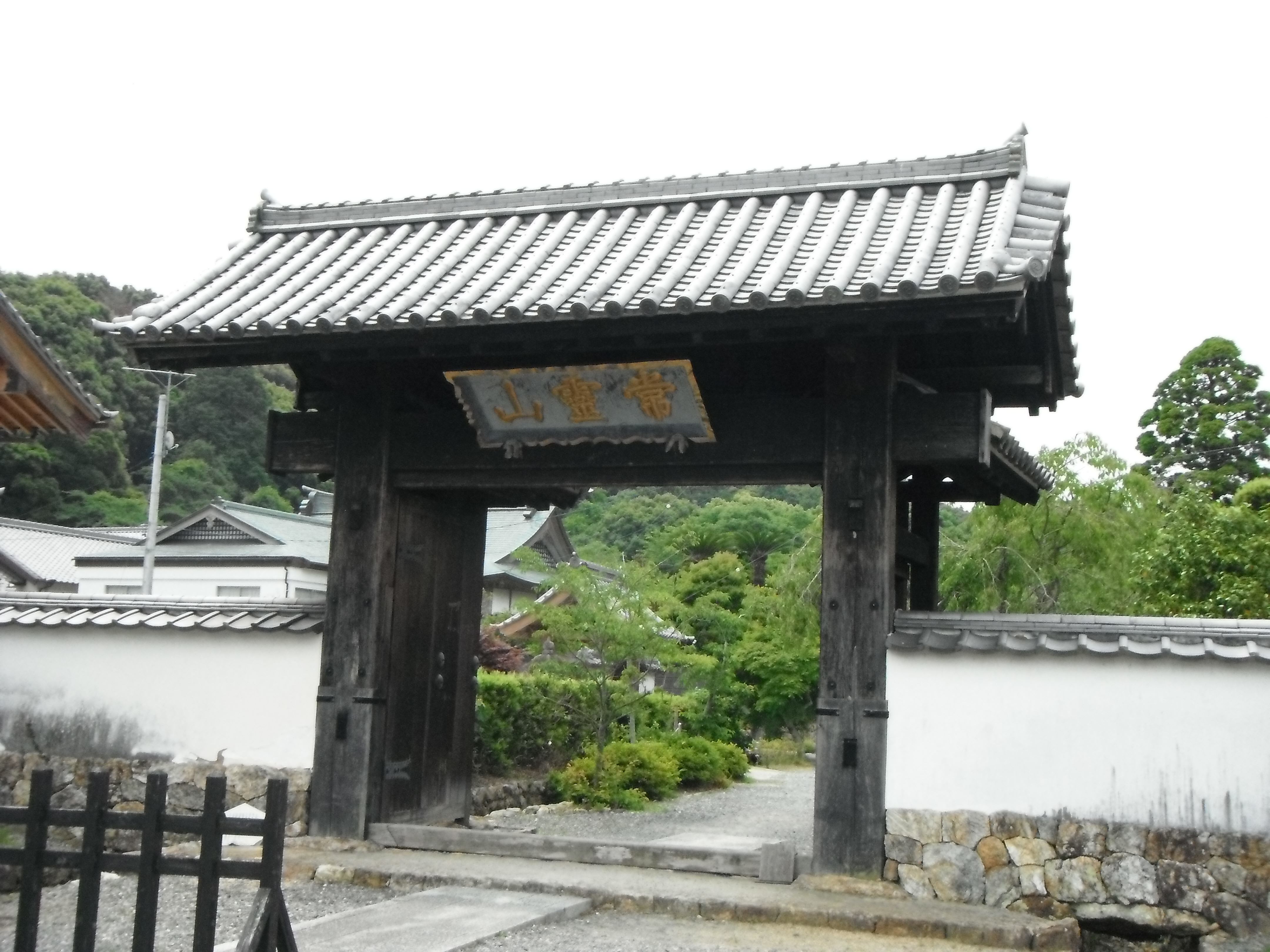 Honkō Temple(Gate)